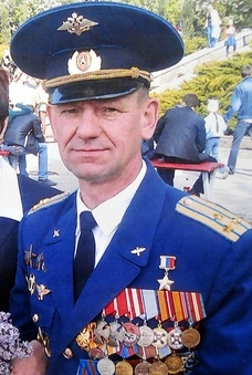 Hero of the Russian Federation, Colonel Sergey Ivanovich Chernyavsky with his wife.